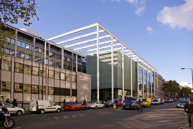 Imperial College, London SW7 Looking across Exhibition Road towards Imperial College.